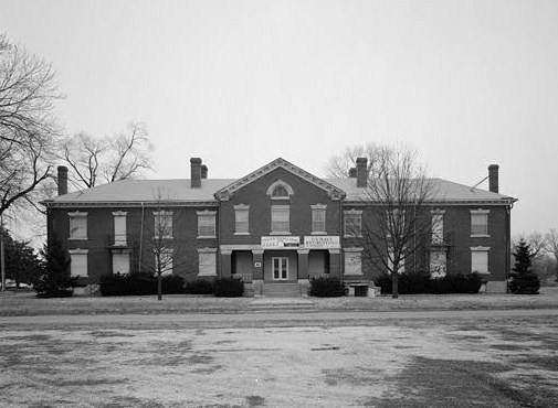 Fort Des Moines Historic Complex, Building No. 46, Des Moines (Polk County, Iowa) Image courtesy of federal HABS—Historic American Buildings Survey in Iowa project (cropped).